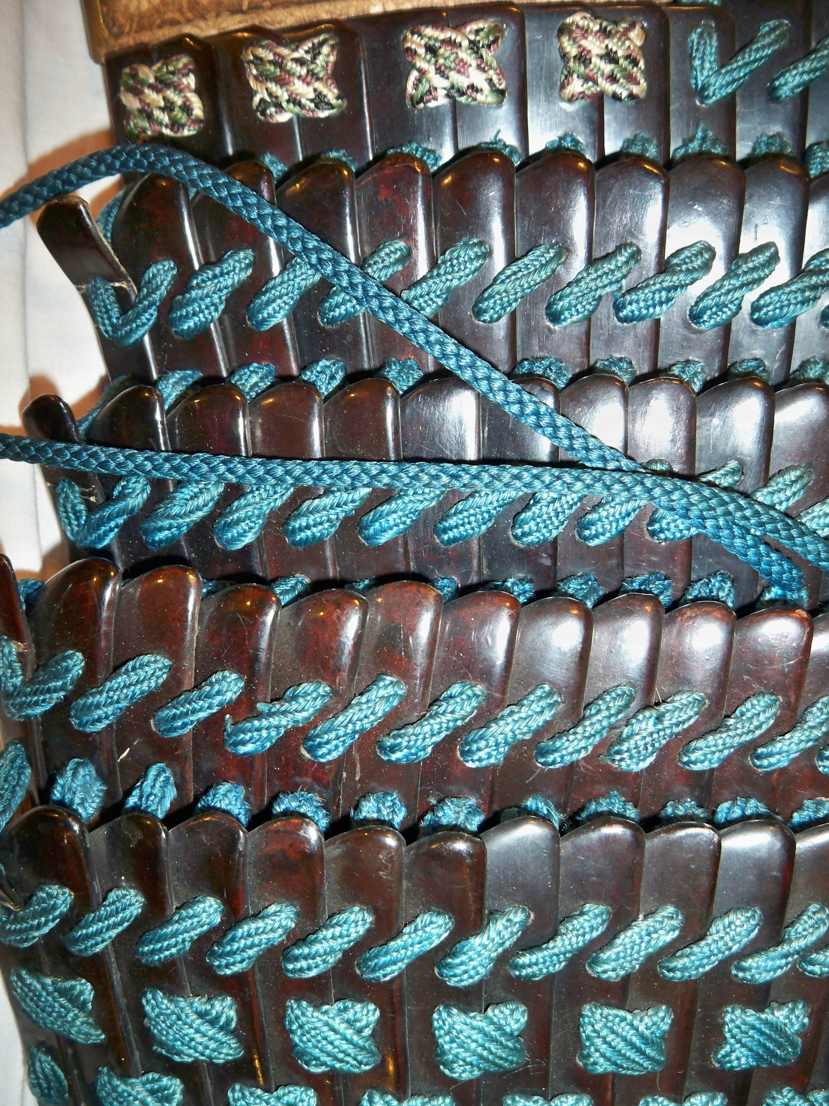 Close up pictures of a nerigawa hon kozane dou (dō) showing the individual nerigawa (leather) small scales (hon kozane).